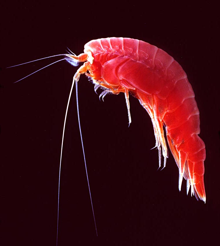 Amphipod image (possibly Ampeliscidae) (flipped)